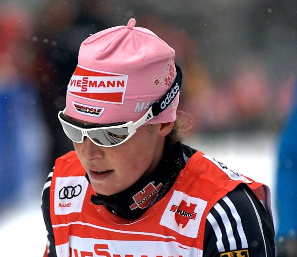 Evi Sachenbacher-Stehle at the Tour de Ski 2010 in Oberhof